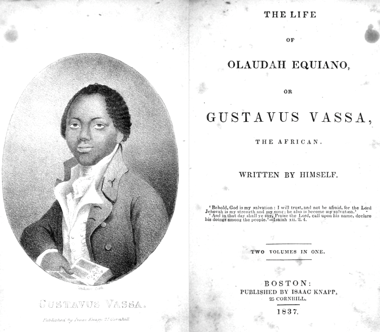 Title page of "The Life of Olaudah Equiano, or Gustavus Vassa, the African" published by Isaac Knapp of Boston, USA